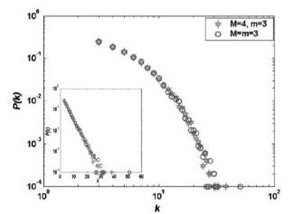 Degree distribution comparison in the log–log scale of the local-world evolving networks with M = 4; 10; 30, m = 3, respectively. All networks have N =10 000